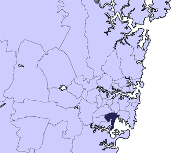 Locator Map Rockdale lga sydney.png Based on Image:Ku-ring-gai sydney.png by User:Randwicked.